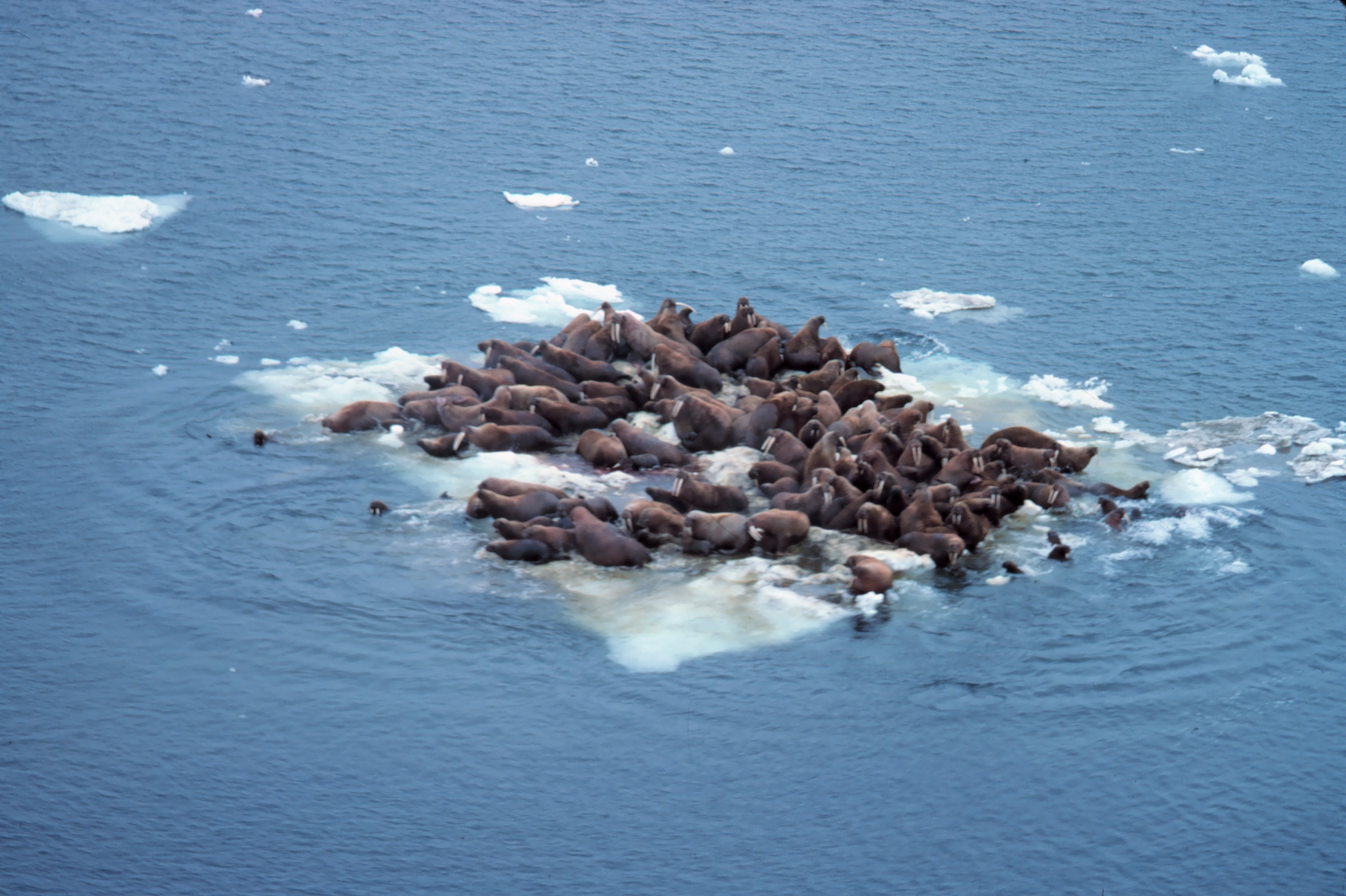 Walrus (Odobenus rosmarus divergens), hauled out on Bering Sea ice, Alaska, United States